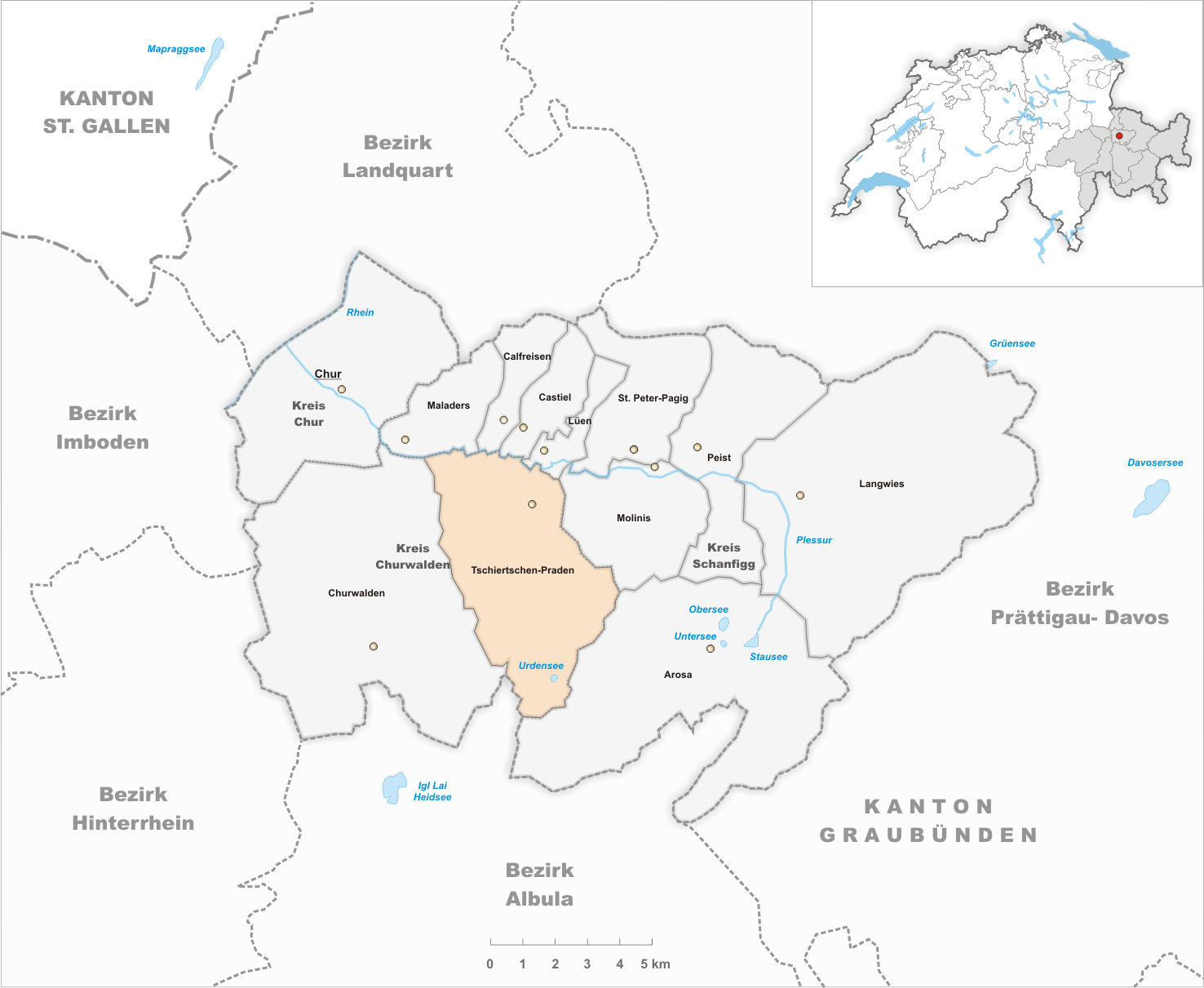 Municipality Tschiertschen-Praden